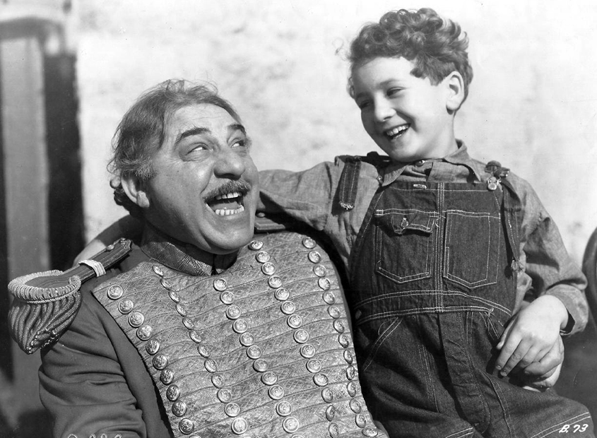 Henry Armetta (left) and Bobby Breen in the film Let's Sing Again (1936) - publicity still.